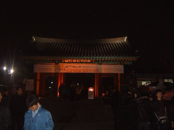 Namsangol Hanok village gate at night